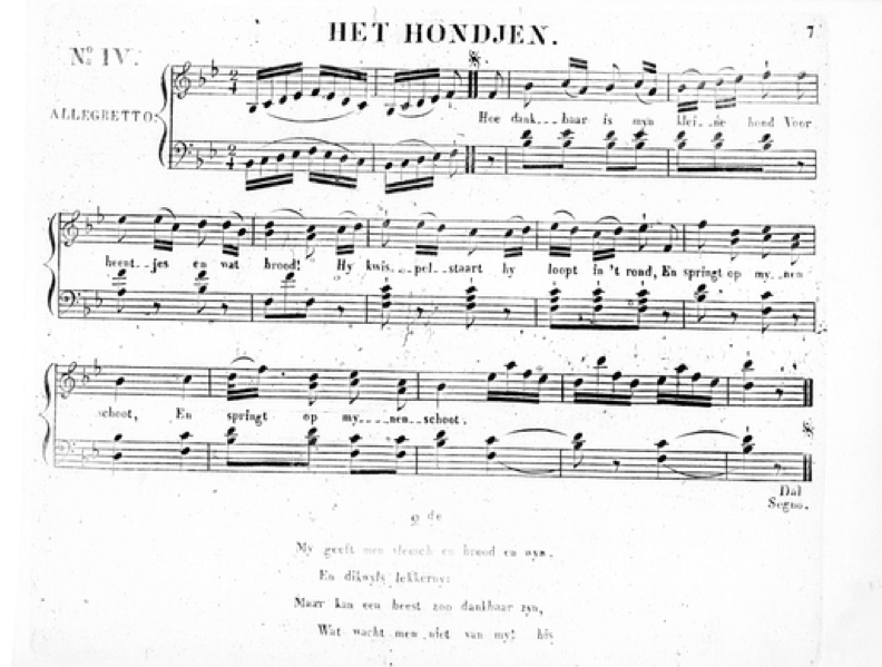 Hieronymus van Alphen (1746-1803), "Twaalf stukjes uit de Gedichtjes voor kinderen" (Leiden, 1824). Composer unknown. From this songbook the Dutch children's song 'Het hondje'.